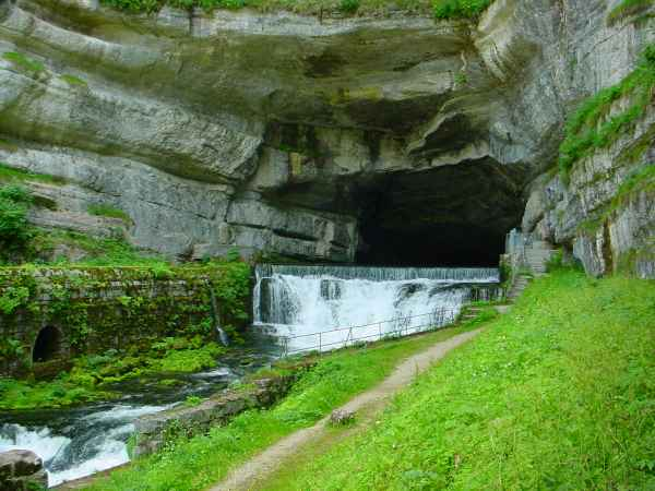 Source of the Loue by Ouhans (Franche-Comté)